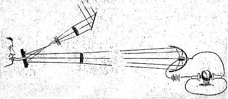 Diagram of the Photophone. From [1]. The image is taken from Alexander Graham Bell's 1880 paper.